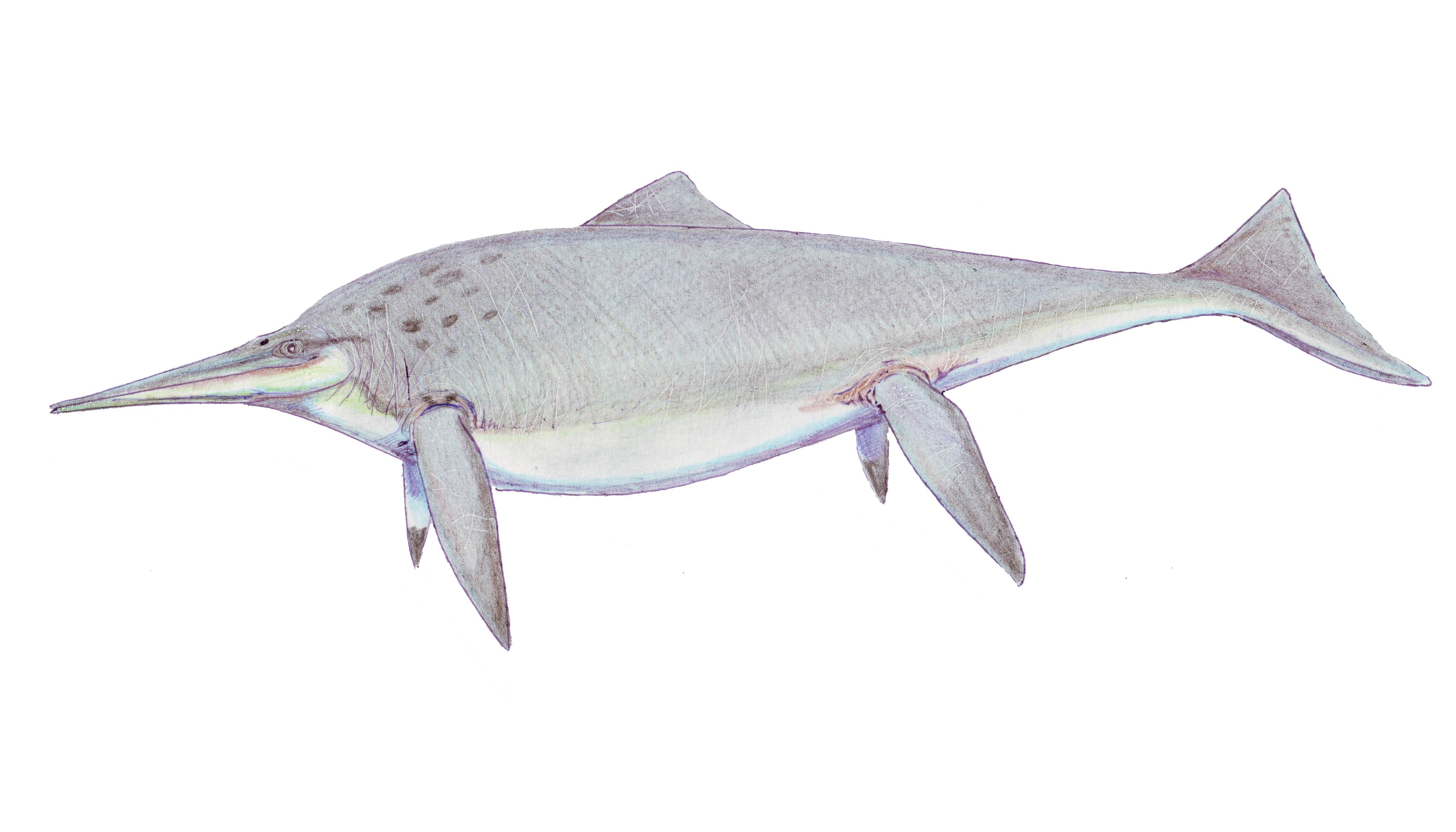 Shonisaurus popularis